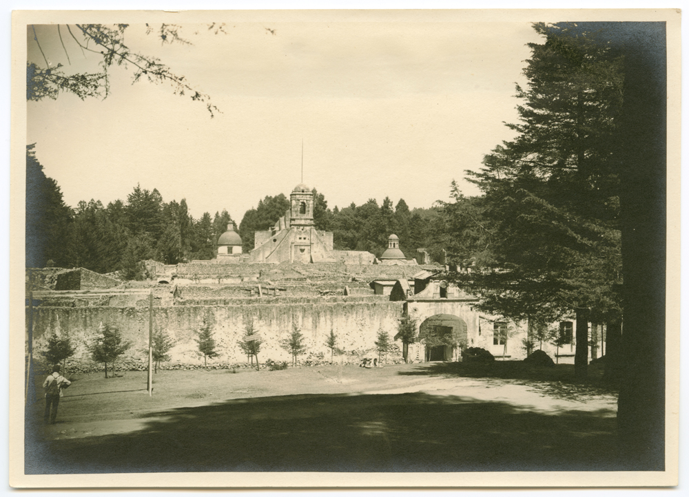 Title: Convento del Desierto de los Leones Alternative Title: [Carmelite Monastery, Parque Nacional Desierto de los Leones, Mexico City] Creator: Brehme, Hugo, 1882-1954 Date: ca. 1906-1920 Part Of: Brehme photographs of Mexico Place: Mexico City, Mexico Physical Description: 1 photographic print: gelatin silver; 13 x 18 cm File: ag1988_0700_0001_eldesierto_opt.jpg Rights: Please cite Southern Methodist University, Central University Libraries, DeGolyer Library when using this image file. A high-quality version of this file may be obtained for a fee by contacting . For more information and to view the image in high resolution, see: View the Mexico: Photographs, Manuscripts, and Imprints Collection